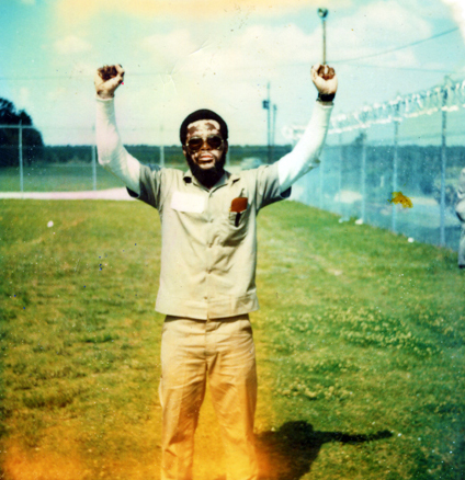 Connie Tyndall in prison in Wagram, North Carolina.